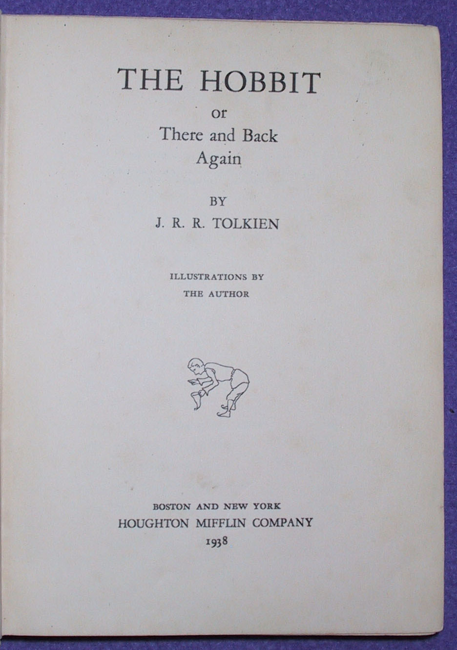 Title page of first American edition of The Hobbit Photographed 29 August 2004 by Daniel R. Strebe.